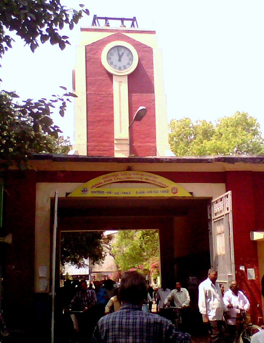 entrance gate no. 3 of Jamalpur locomotive workshop, Bihar, India